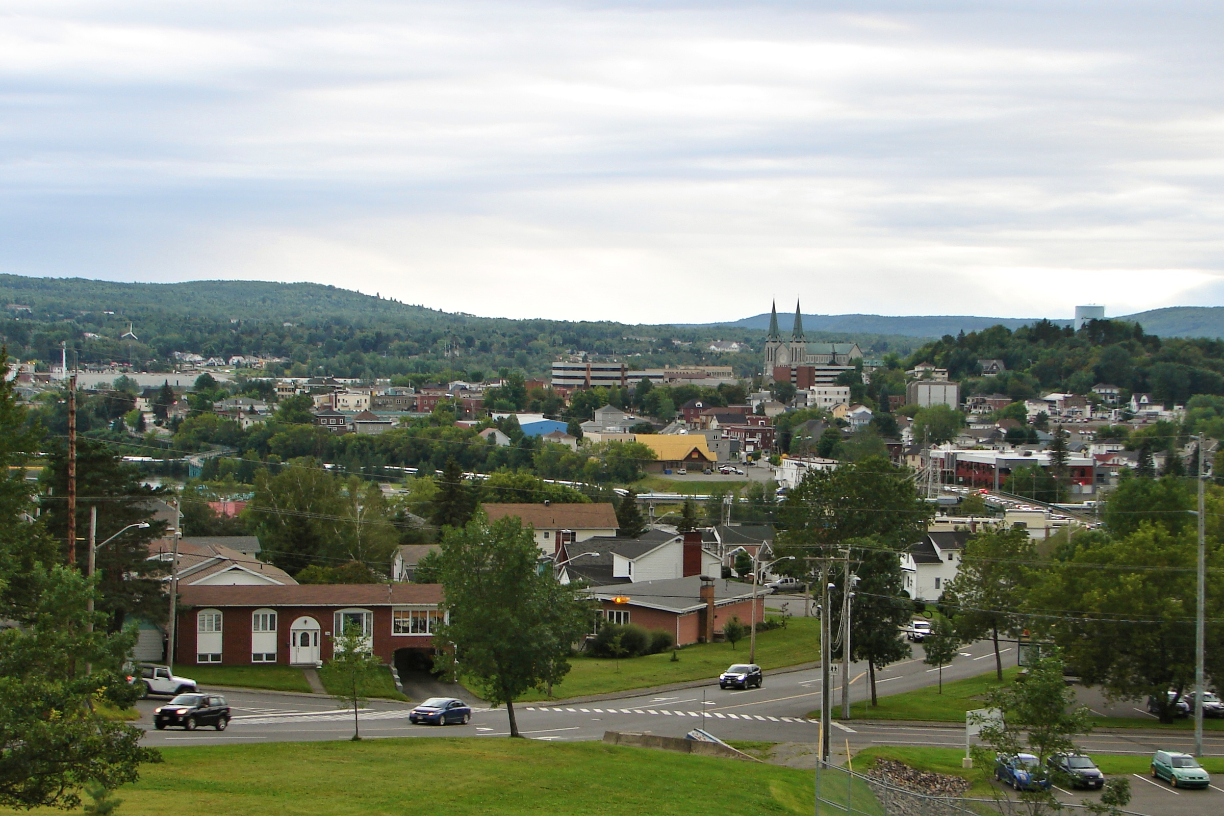 Edmundston, New Brunswick, Canada